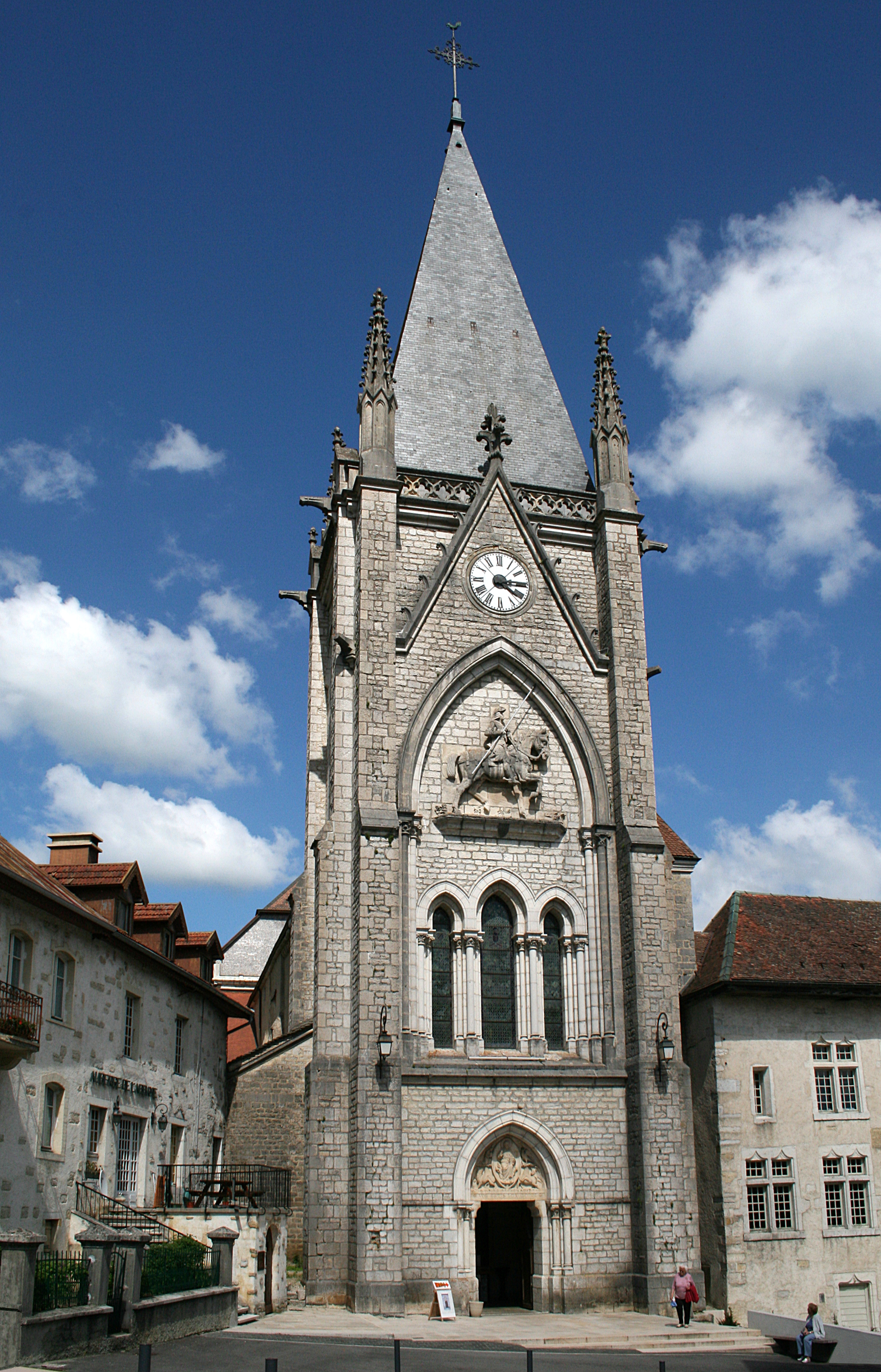 Montbenoît (Doubs) - France), the abbey church (XI-XXth centuries).